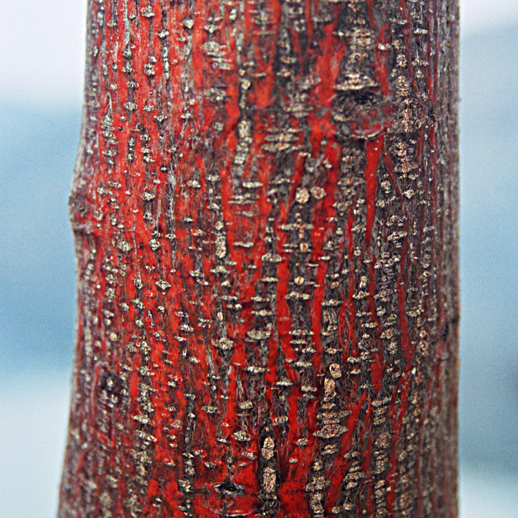 Lenticels in bark of Melia azedarach.